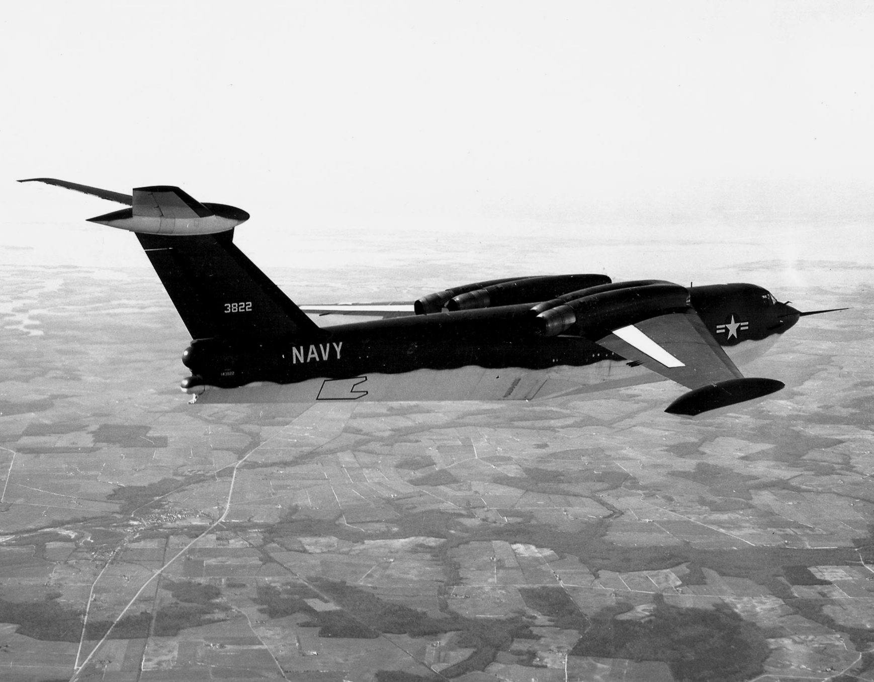 The U.S. Navy Martin XP6M-1 "SeaMaster" (BuNo 138822) jet-powered flying boat in flight.